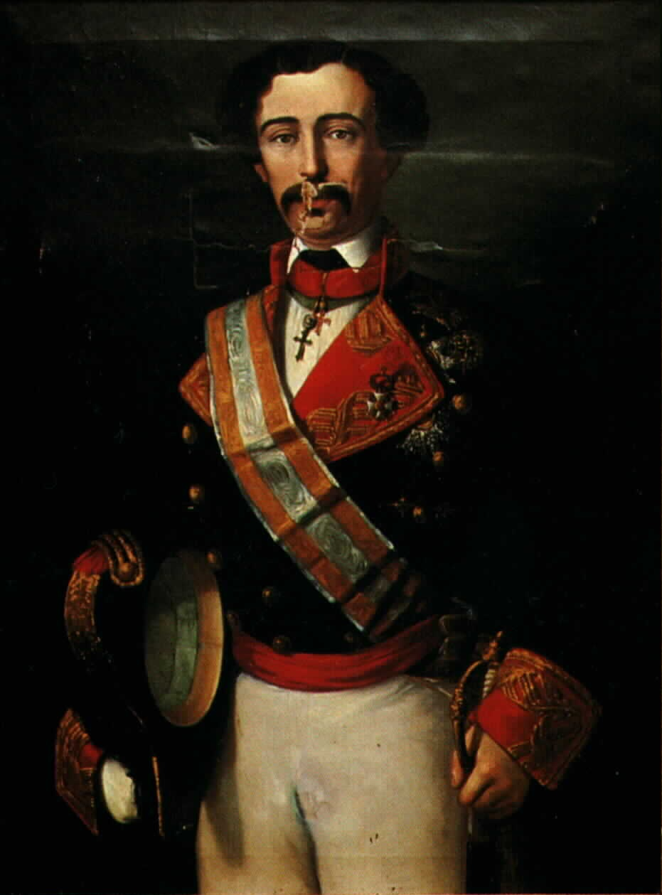 General Jaime Ortega